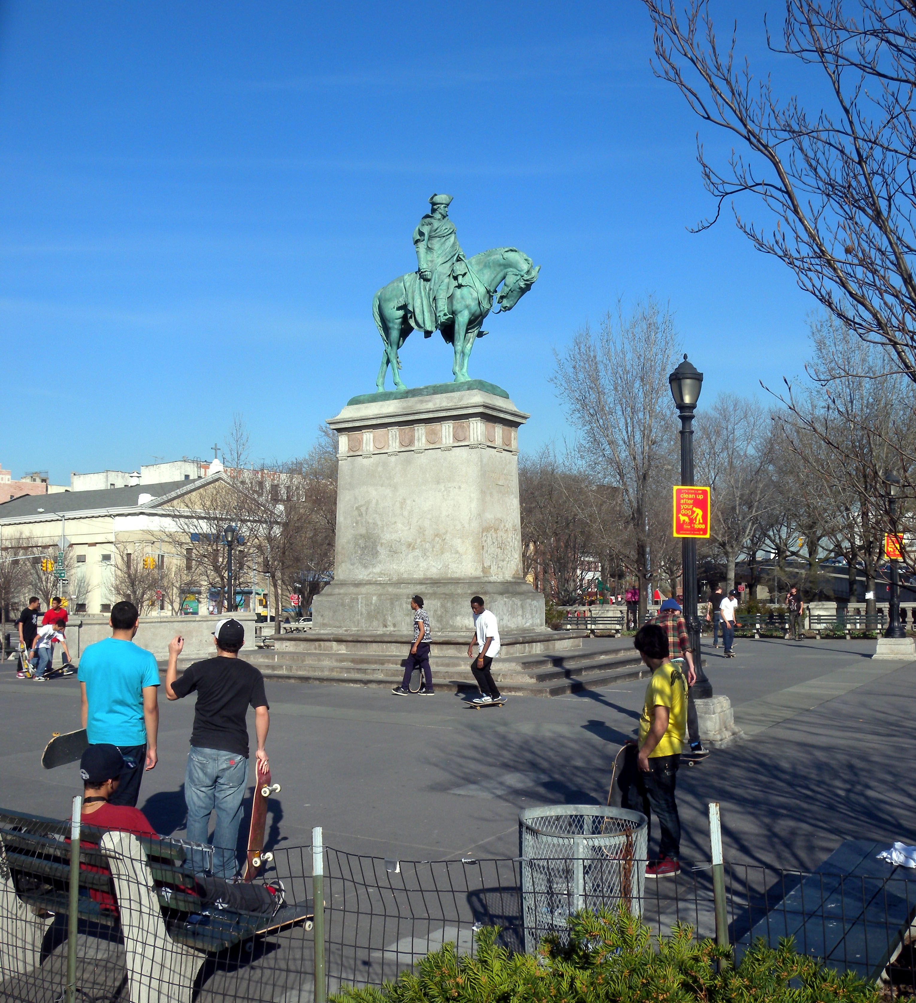 Looking northeast at Continental Army Plaza on a sunny afternoon.